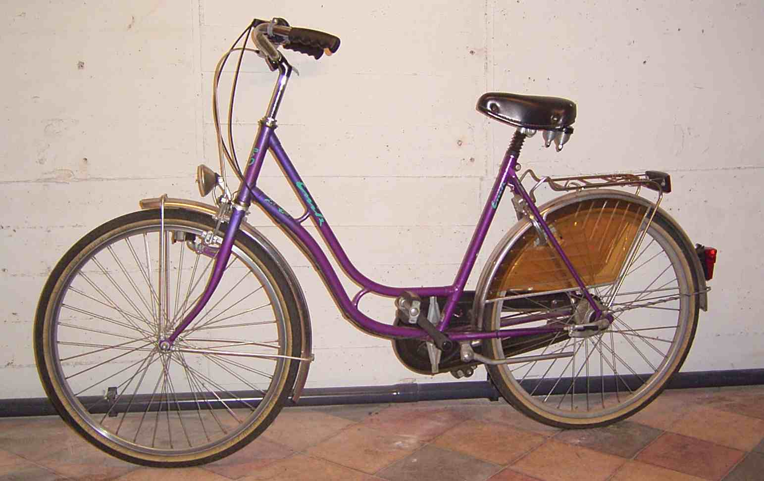 Enik Ladies bicycle built in the 1990s